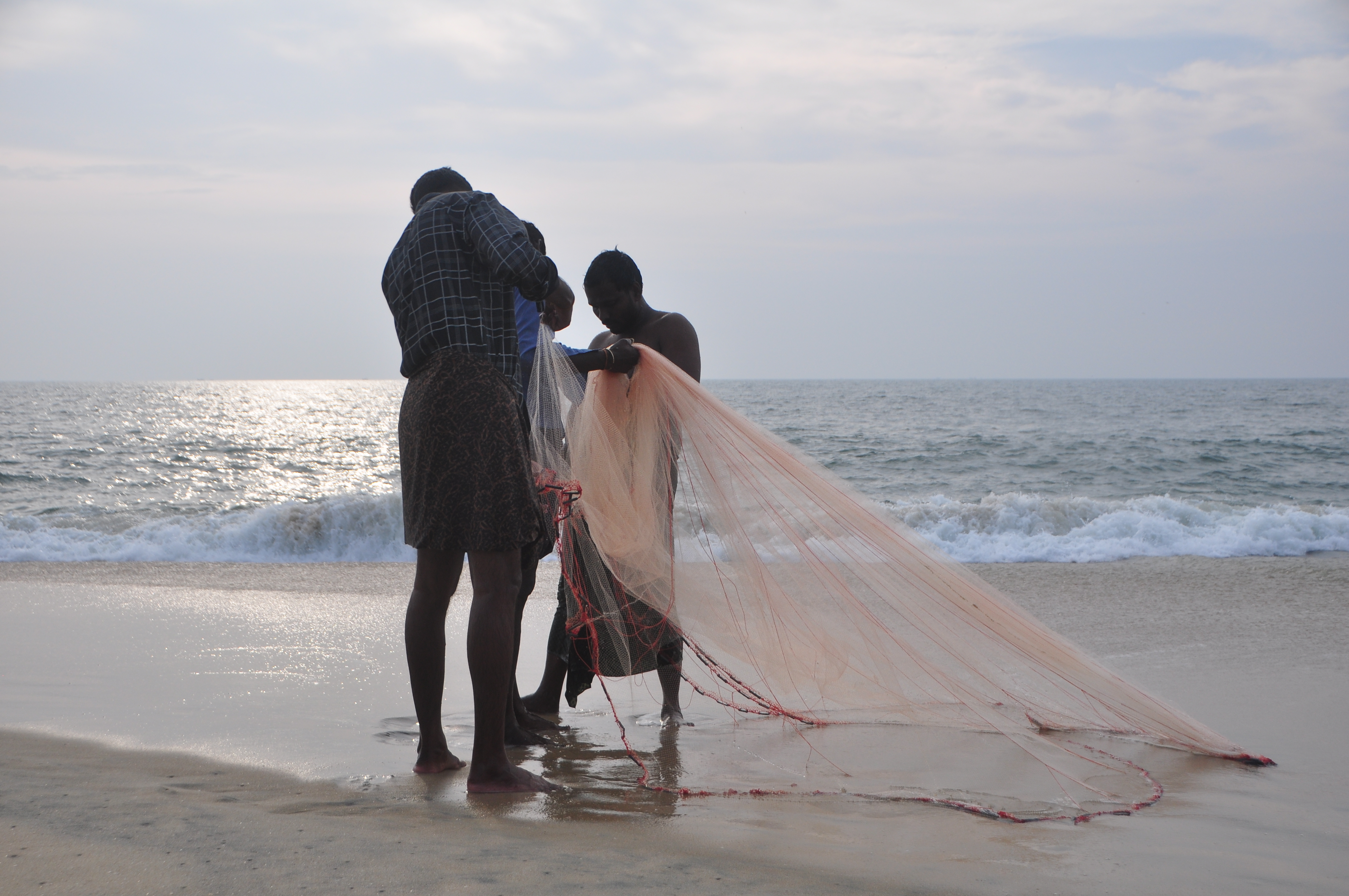 A fisherman and his sidekick entangling the fishing net in allepey beach